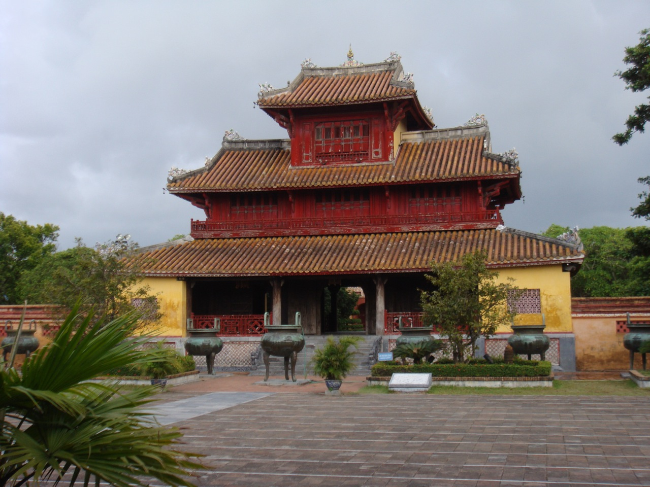 Citadel of Huế